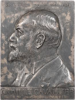 Camille Cavallier (19 May 1854 – 10 June 1926) was a French entrepreneur who directed the Pont-à-Mousson iron works in Lorraine, today Saint-Gobain.